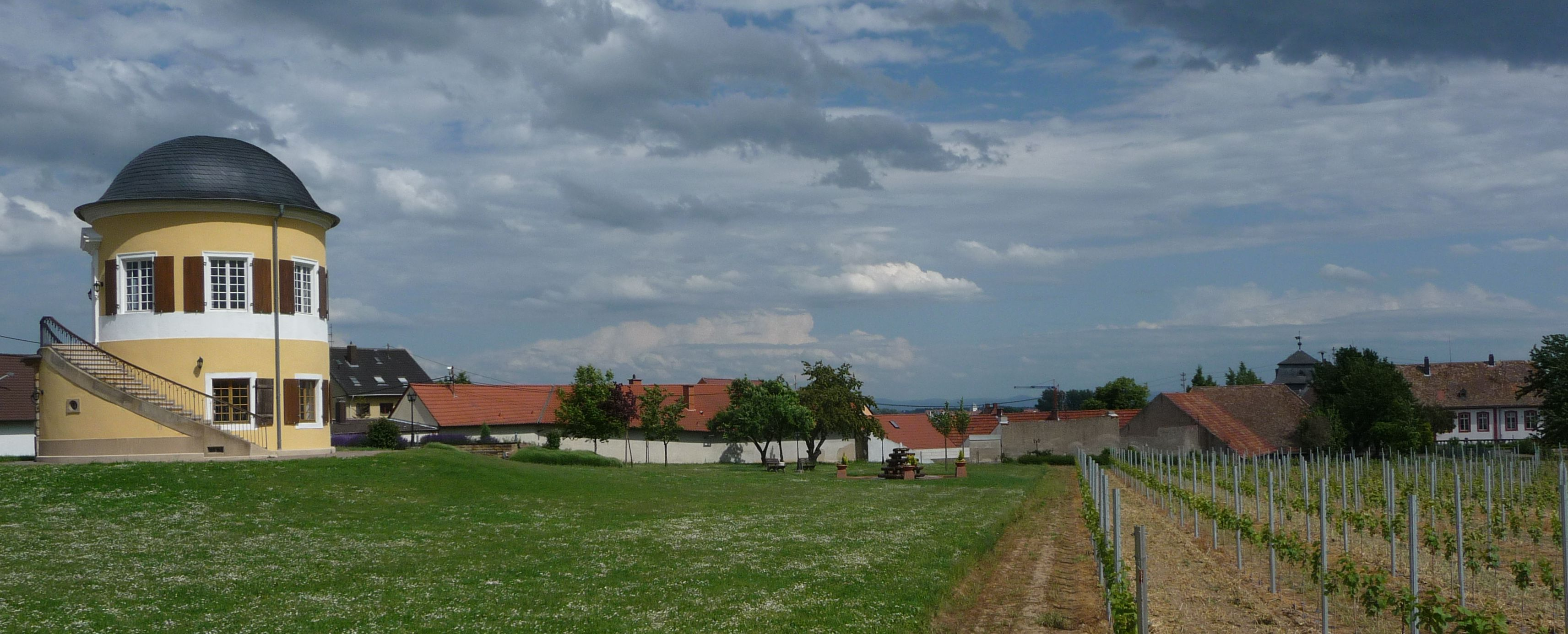 Kleinniedesheimer Schloss (Castle in Kleinniedesheim, Germany)